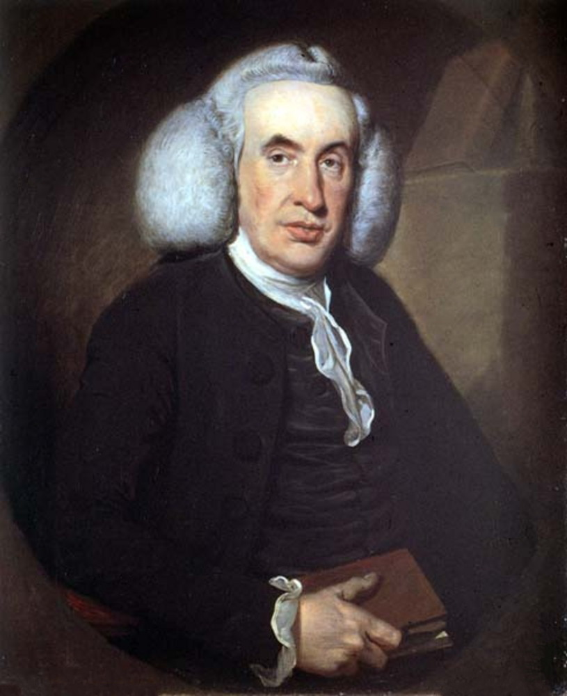 William Cullen (15 April 1710 – 5 February 1790)